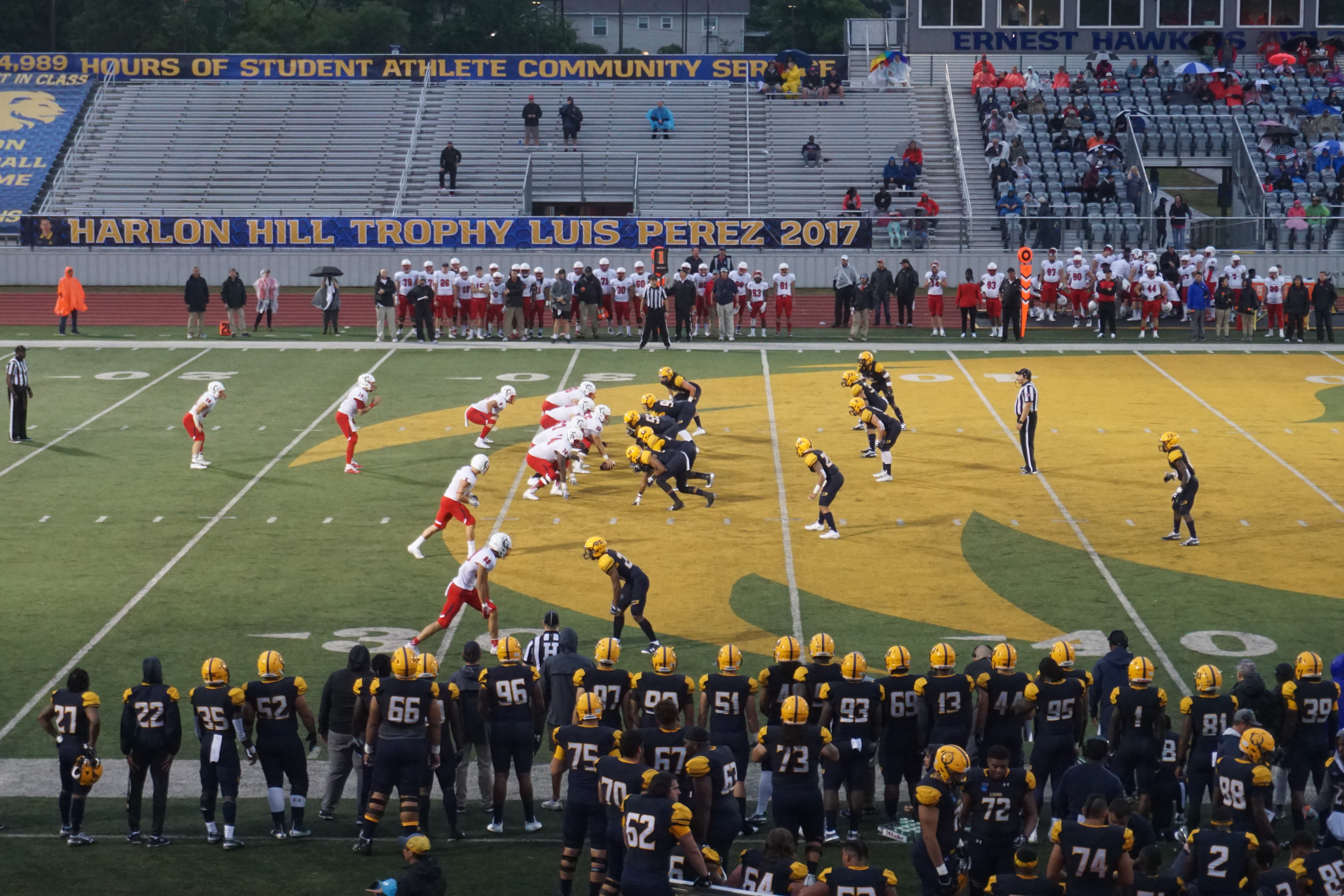 Colorado State–Pueblo on offense during the Colorado State–Pueblo ThunderWolves vs. Texas A&M–Commerce Lions football game at Memorial Stadium in Commerce, Texas (United States). Colorado State–Pueblo won 23–13.